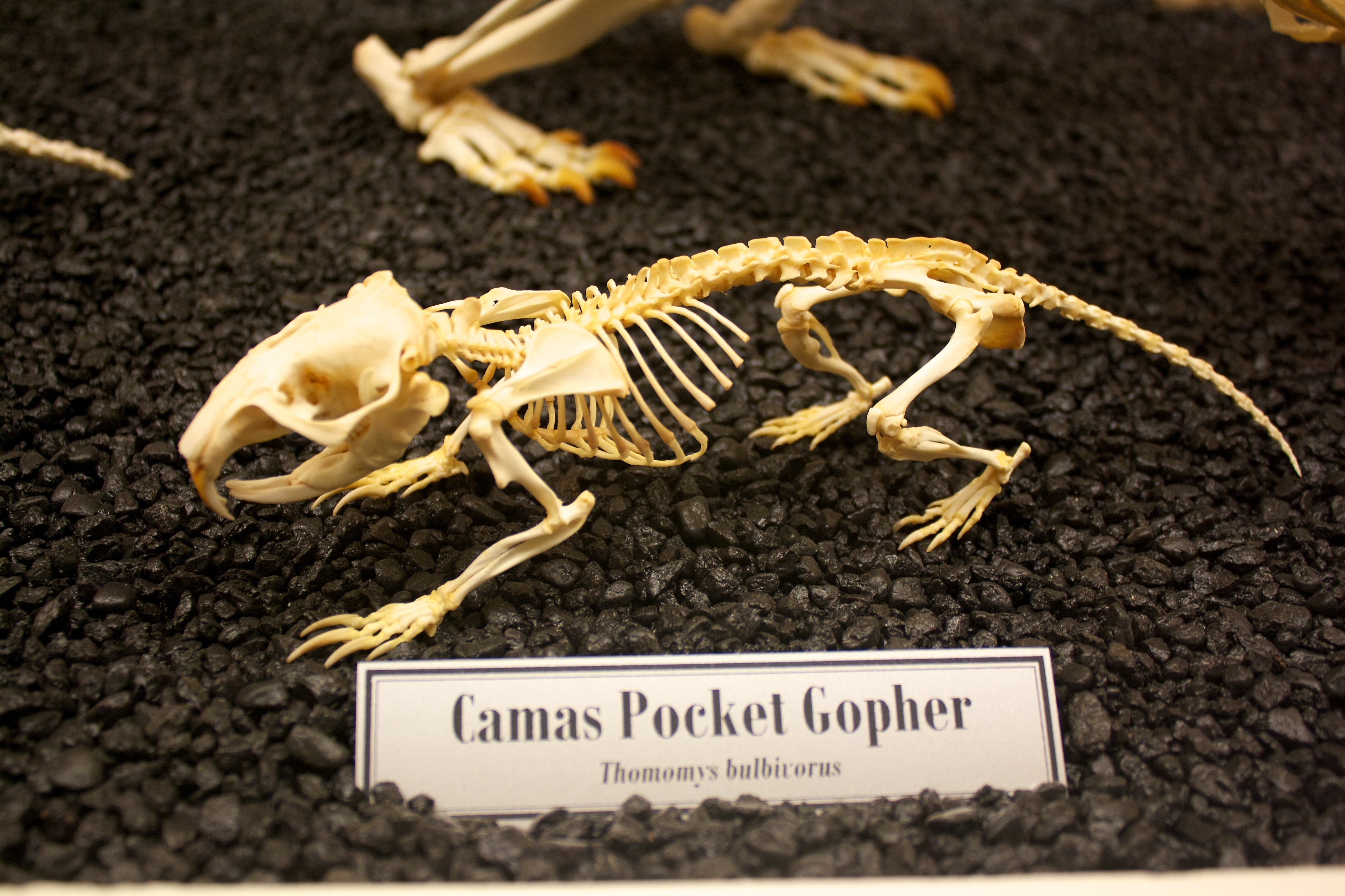 Skeleton of a Thomomys bulbivorus at the Osteology Museum of Oklahoma